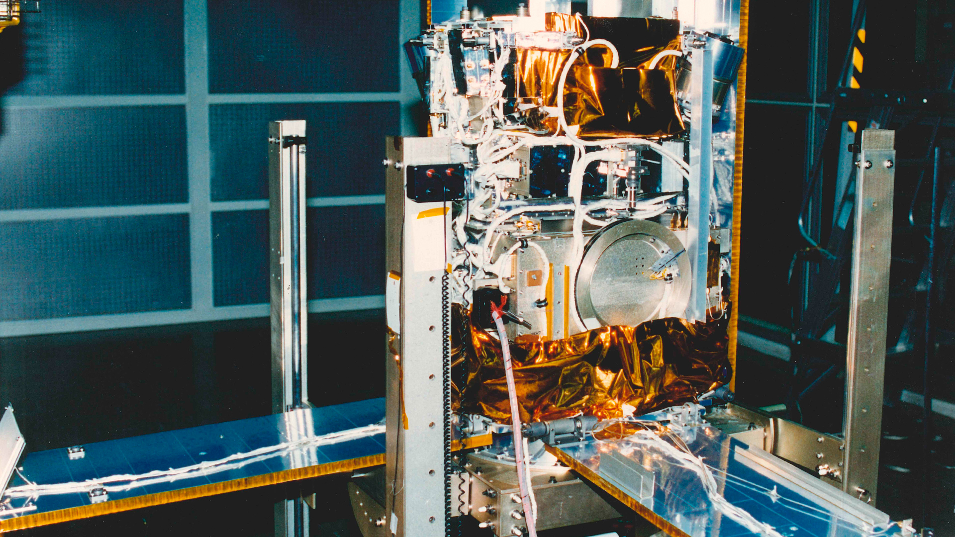 SAC-B before it's final integration.